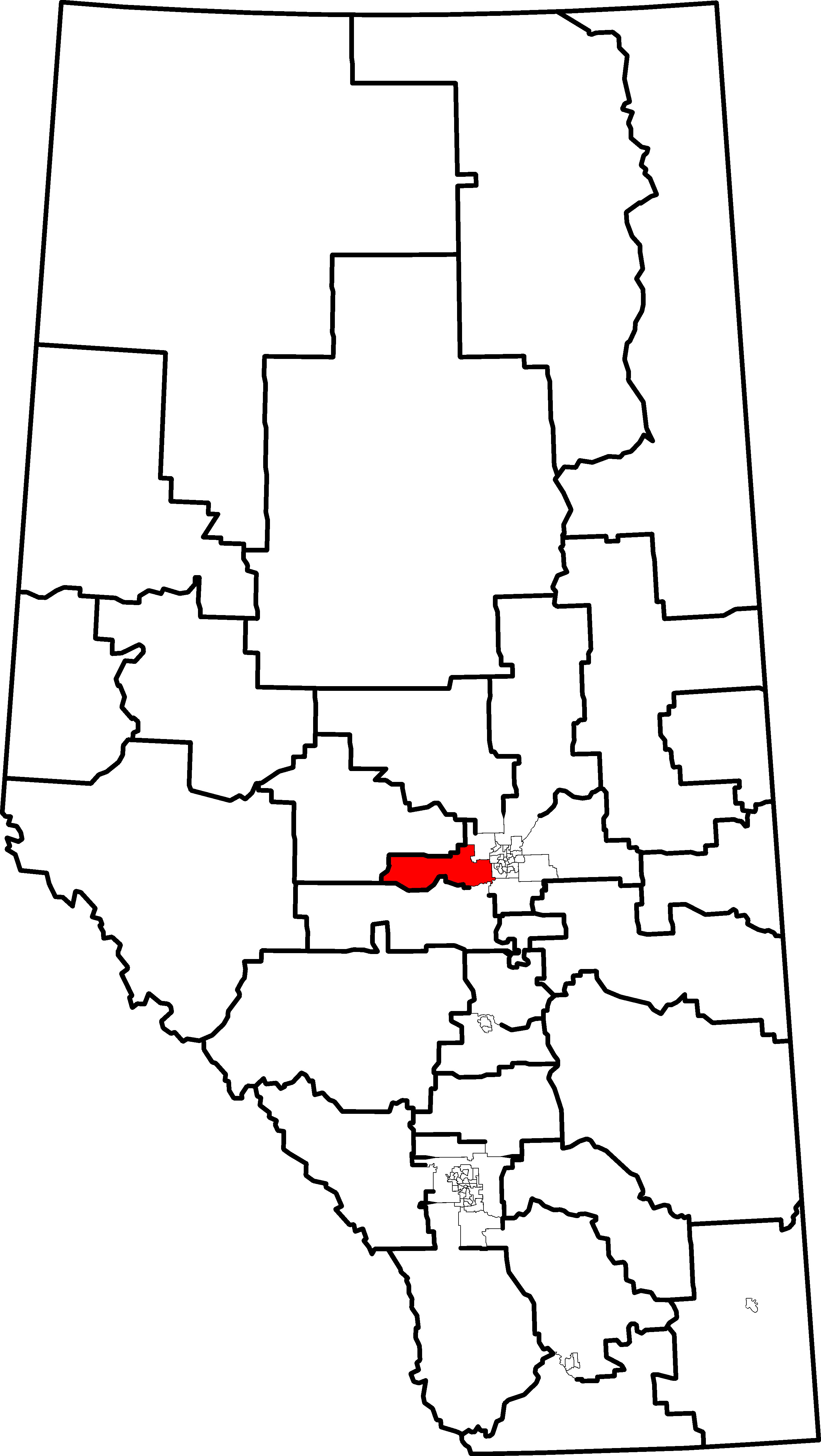 A map of the Alberta provincial electoral districts, effective 2010. Stony Plain is highlighted in red.